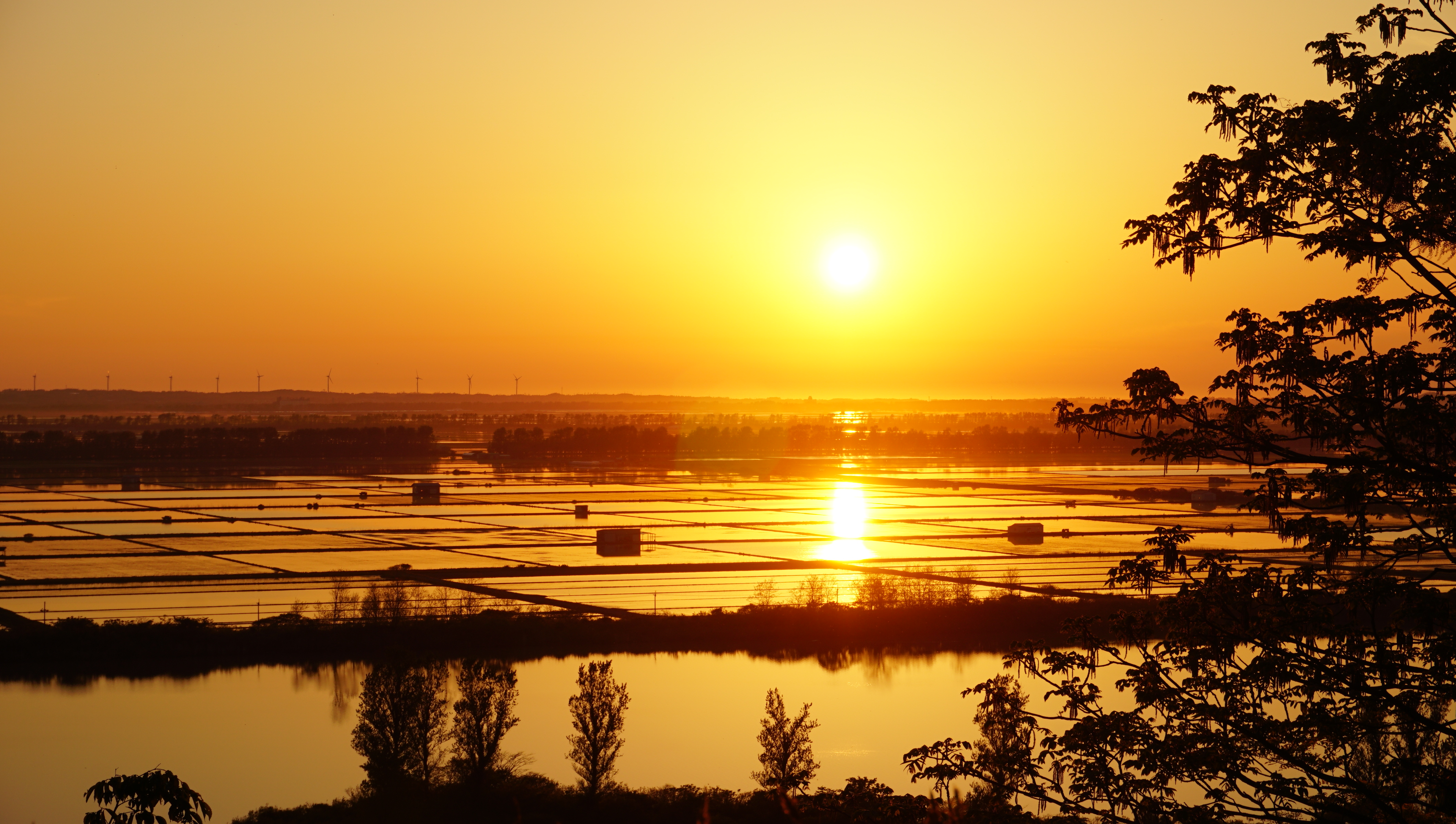 sunset view from Mikurabana Park in Hachirogata Town, Akita, Japan